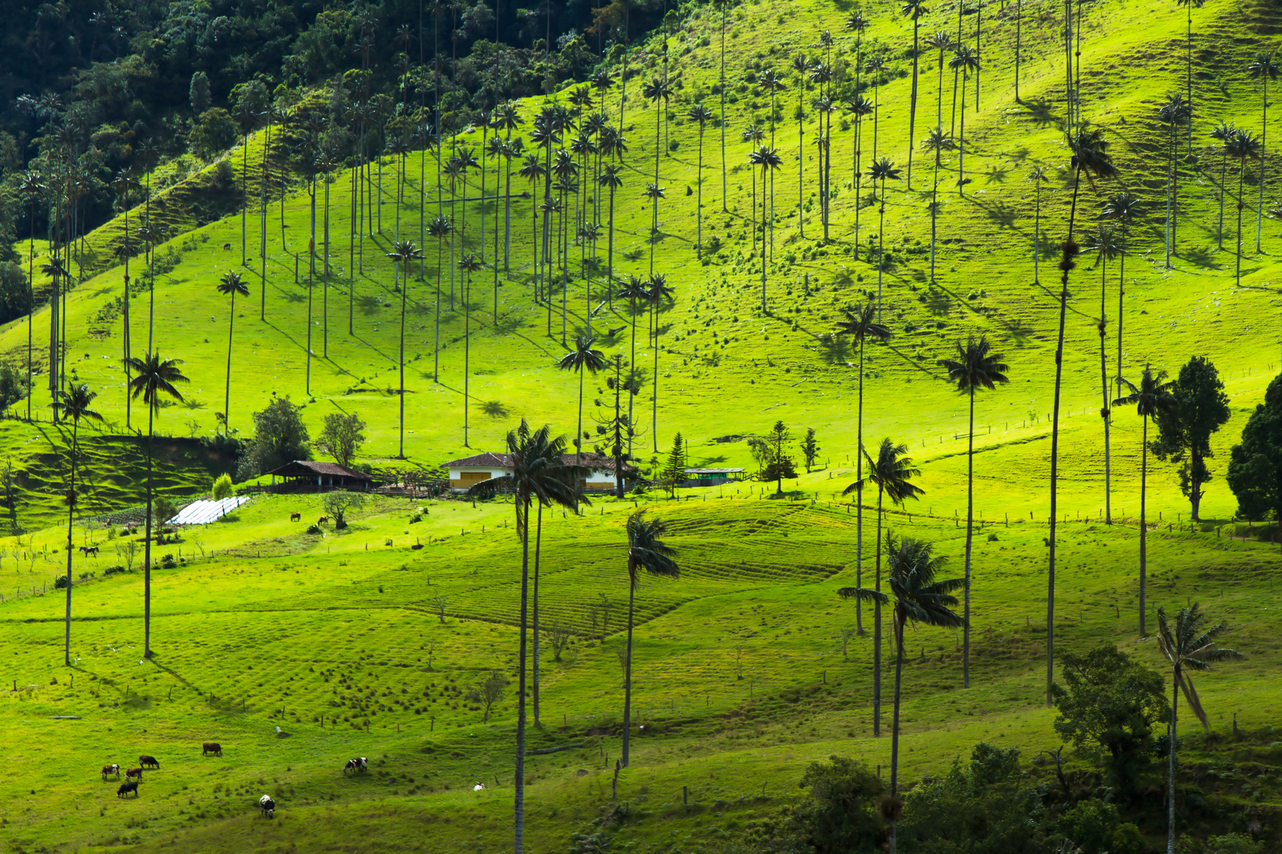 The Palma de Cera (Wax Palm) is the national tree of Colombia.